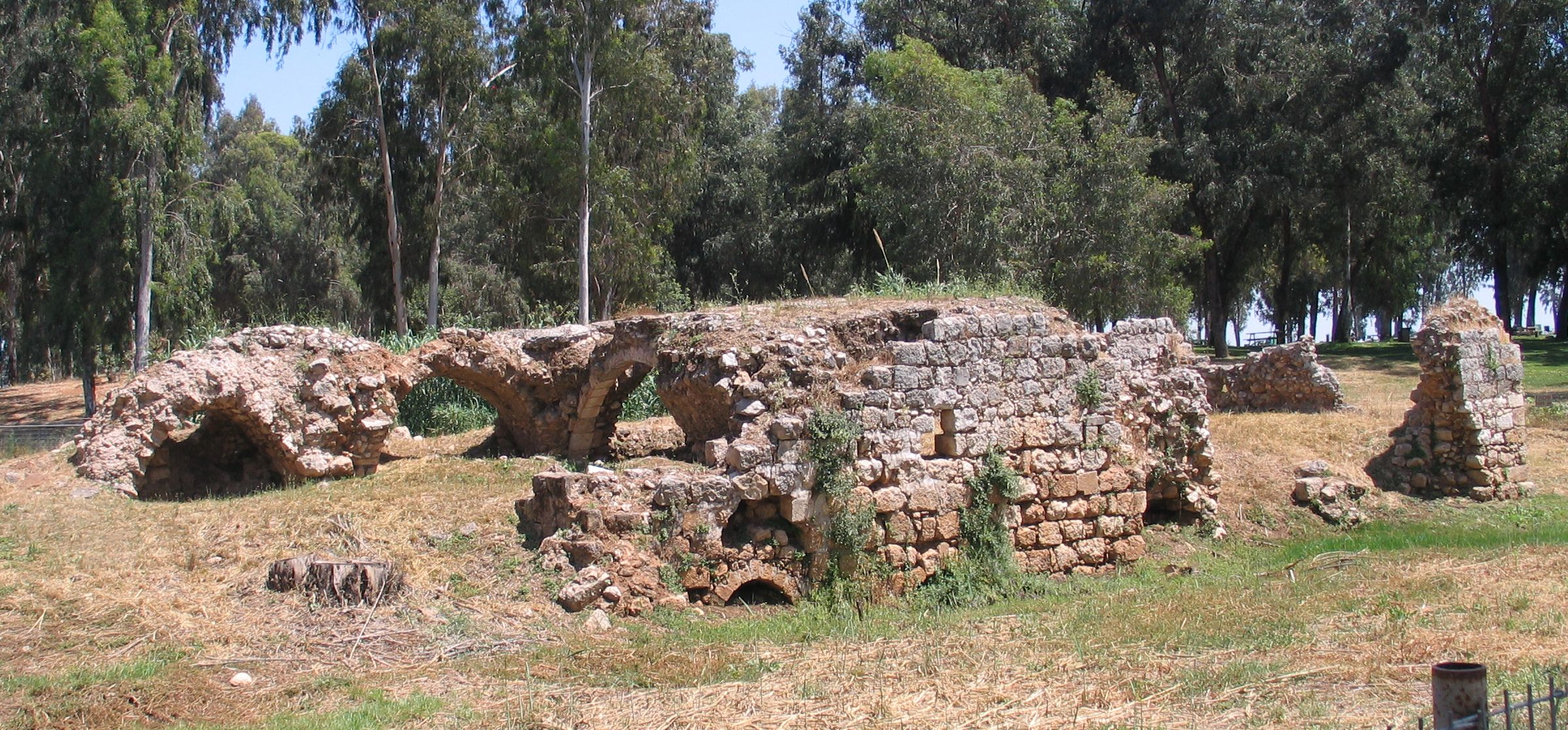 Ruins of a mill, Yarkon national part, Israel.